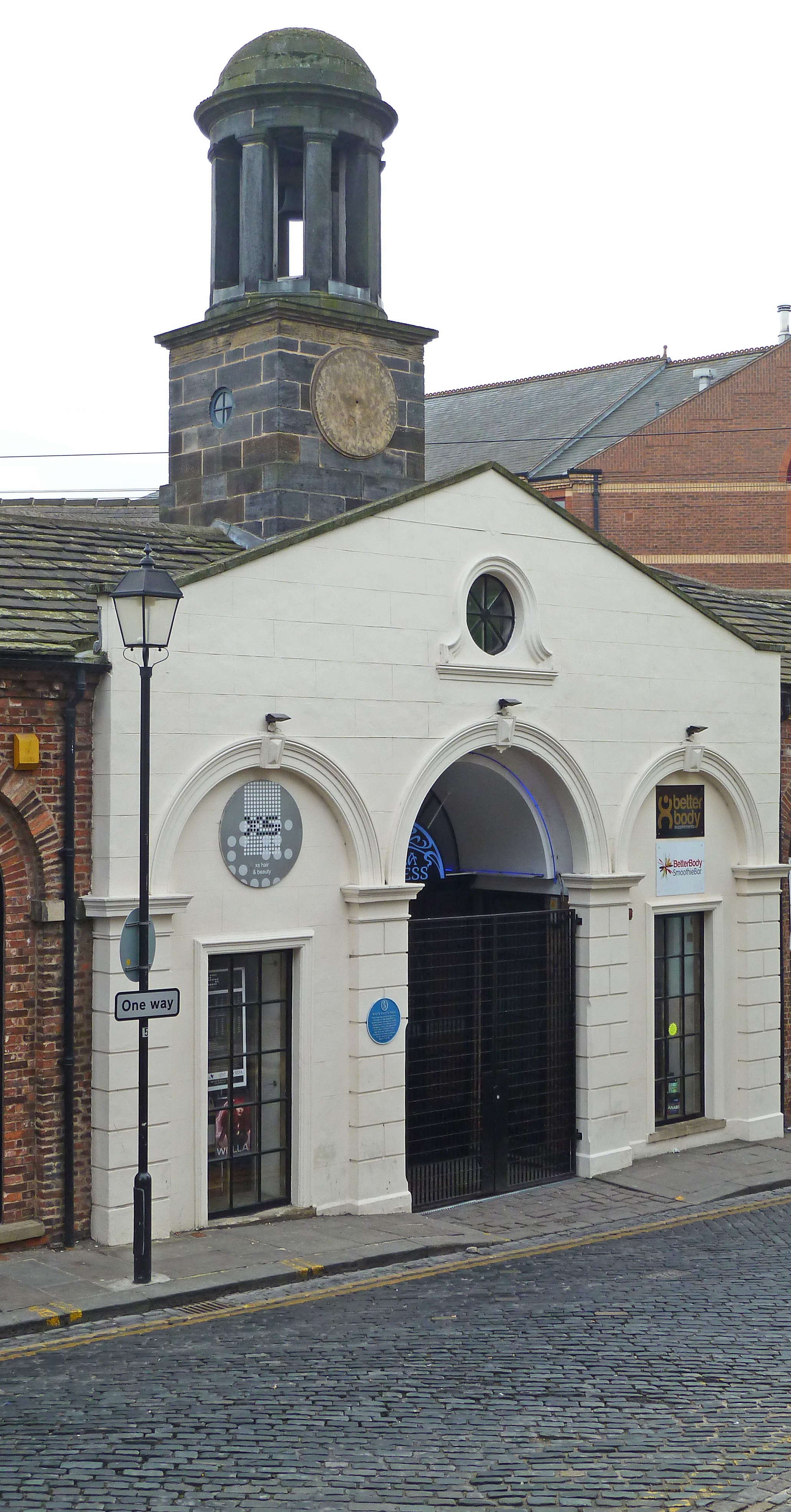 Leeds. 1776 by William Johnson